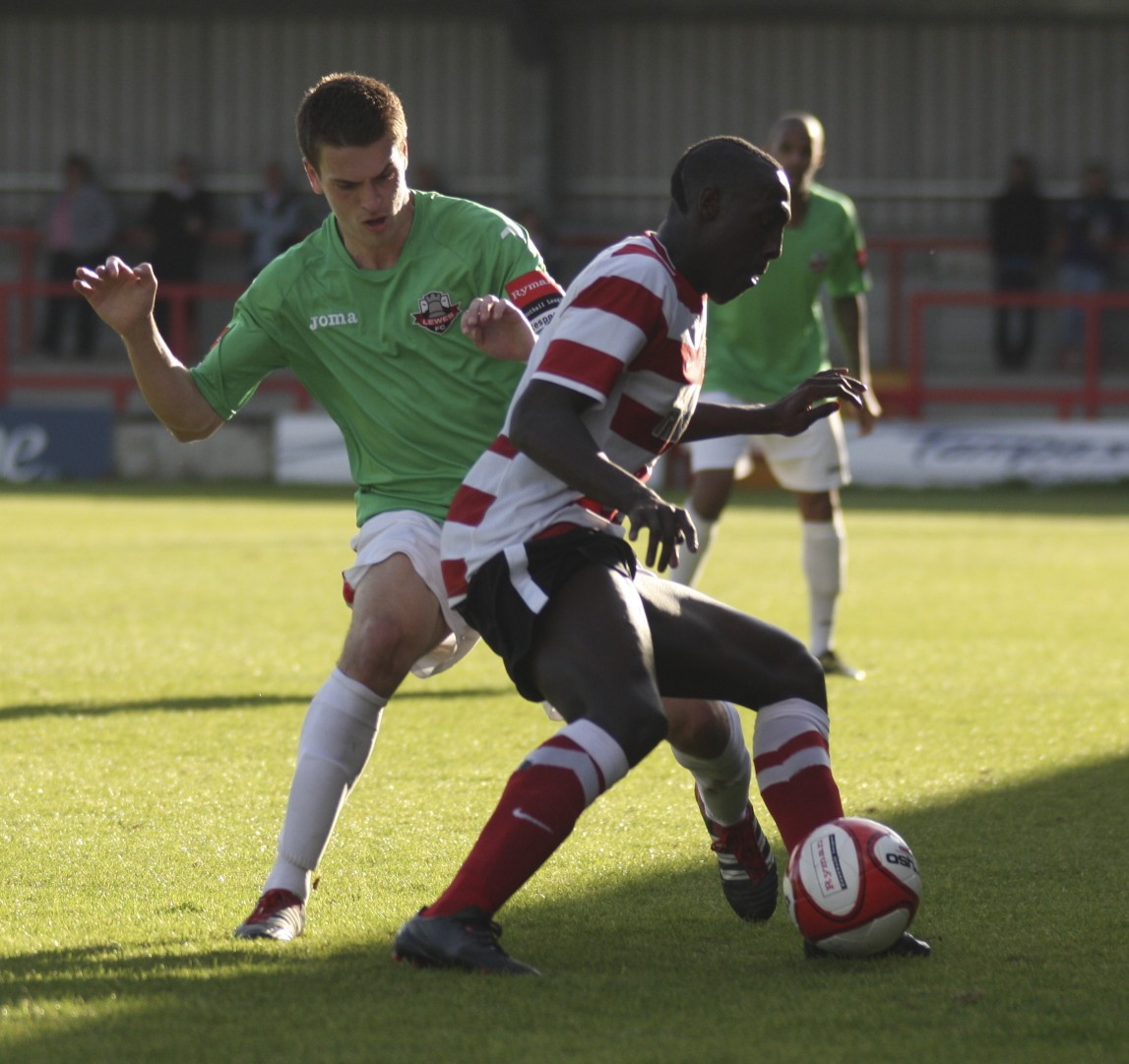 A Kingstonian F.C. player (red and white) in a match against Lewes F.C.